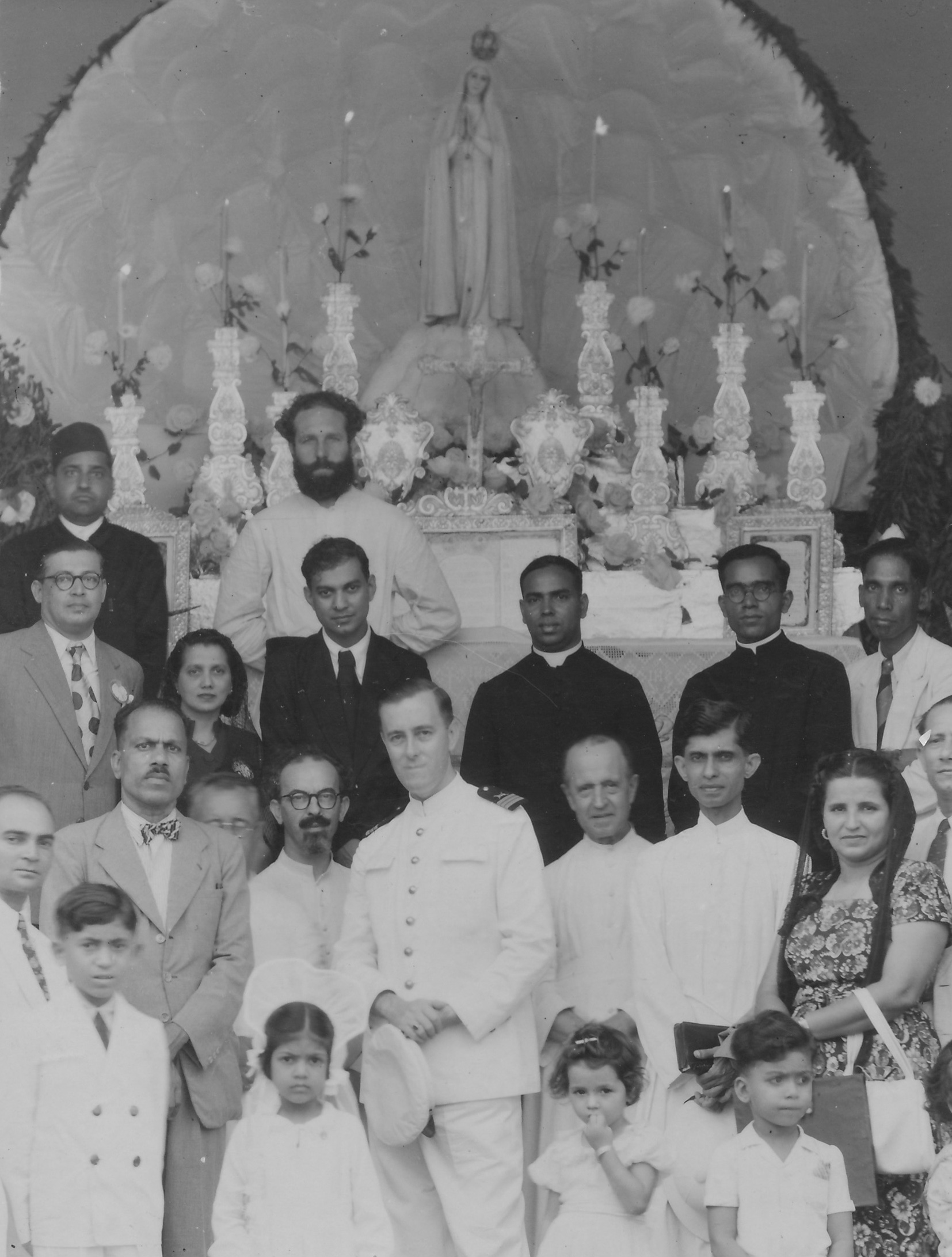 1950-7-20 DIU Visit of Our Lady of Fátima